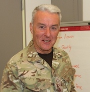 Lt. Gen. Patricia Horoho, Army Surgeon General met with the Director General Army Medical Services, United Kingdom Maj. Gen. Jeremy Rowan i